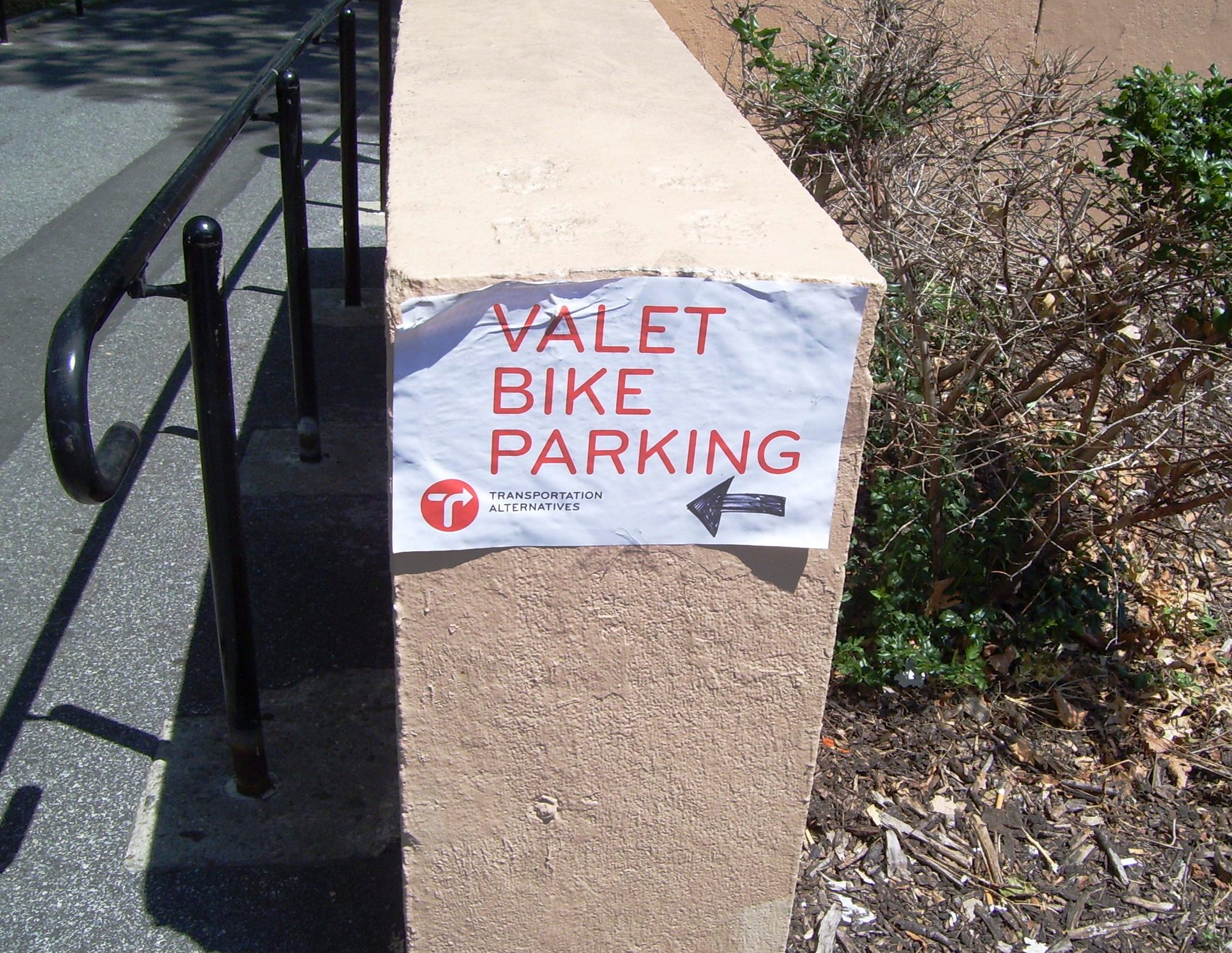 "Valet bike parking" sign at East River Park, near the bandshell, in Manhattan, New York City.